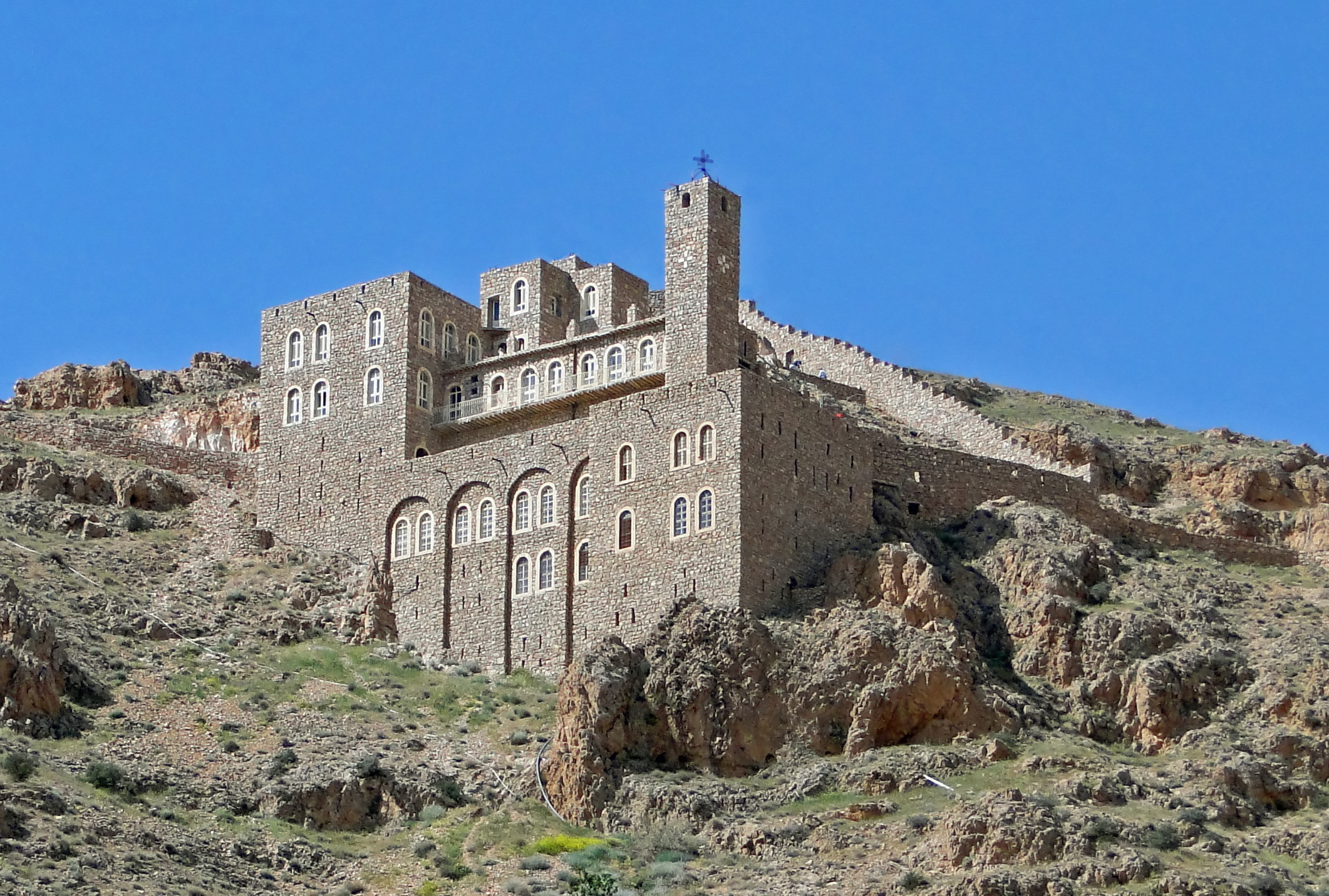 New building (built after 1991) of Deir Mar Musa al-Habashi or Monastery of Saint Moses the Abyssinian, Syria